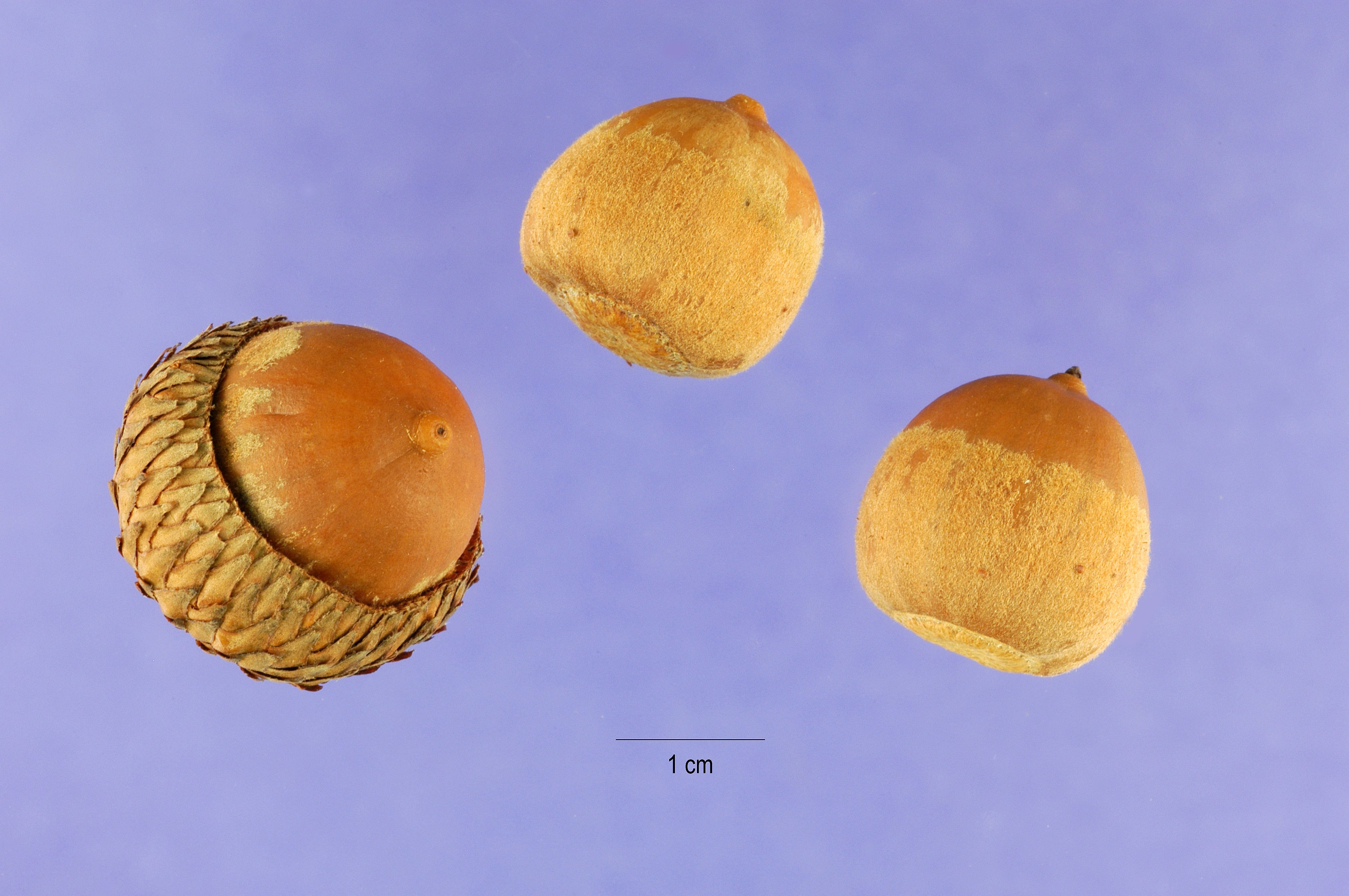 Quercus velutina acorns